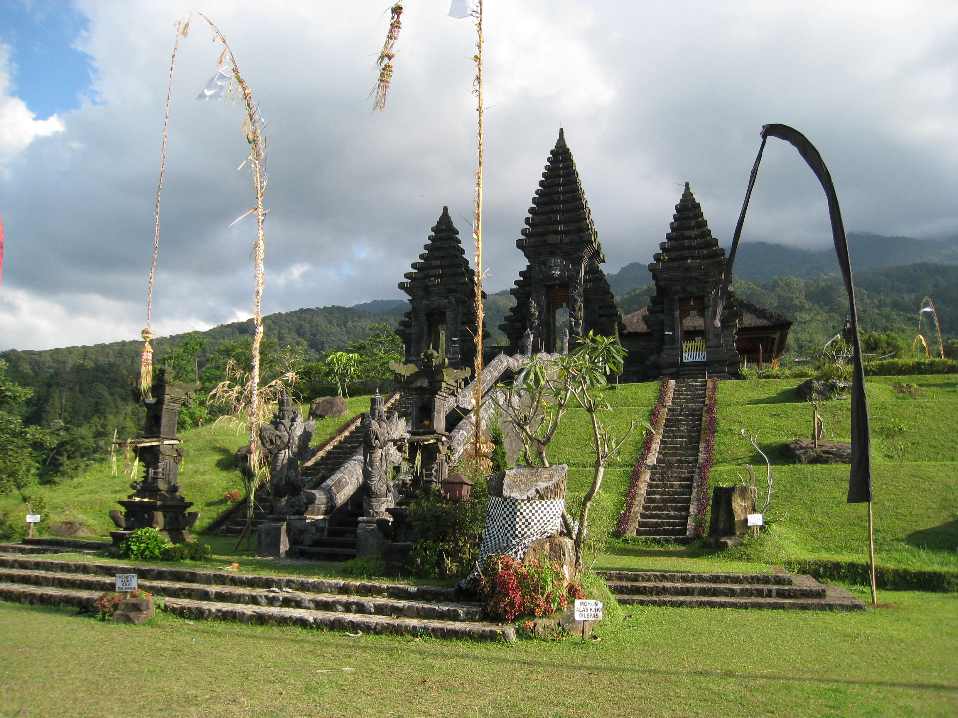 The triple Paduraksa gate and Naga stairs at Pura Parahyangan Agung Jagatkarta, Nusantara Hindu temple on northern slope of Mount Salak in Bogor Regency, West Java, Indonesia.